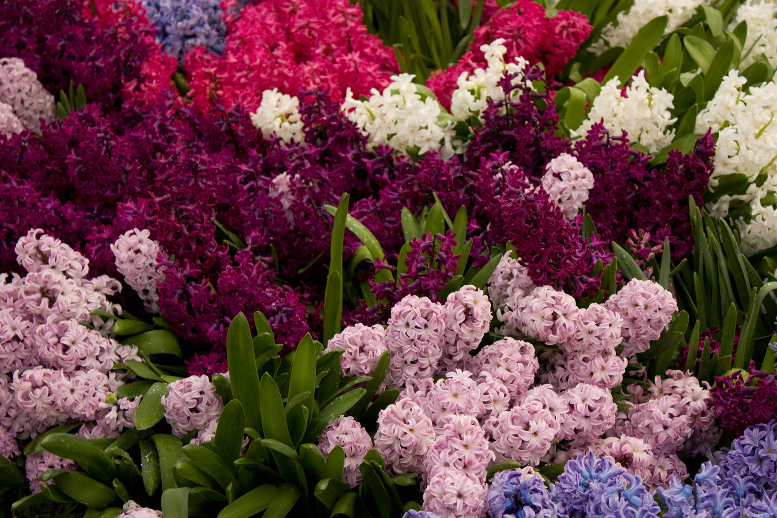 Hyacinths